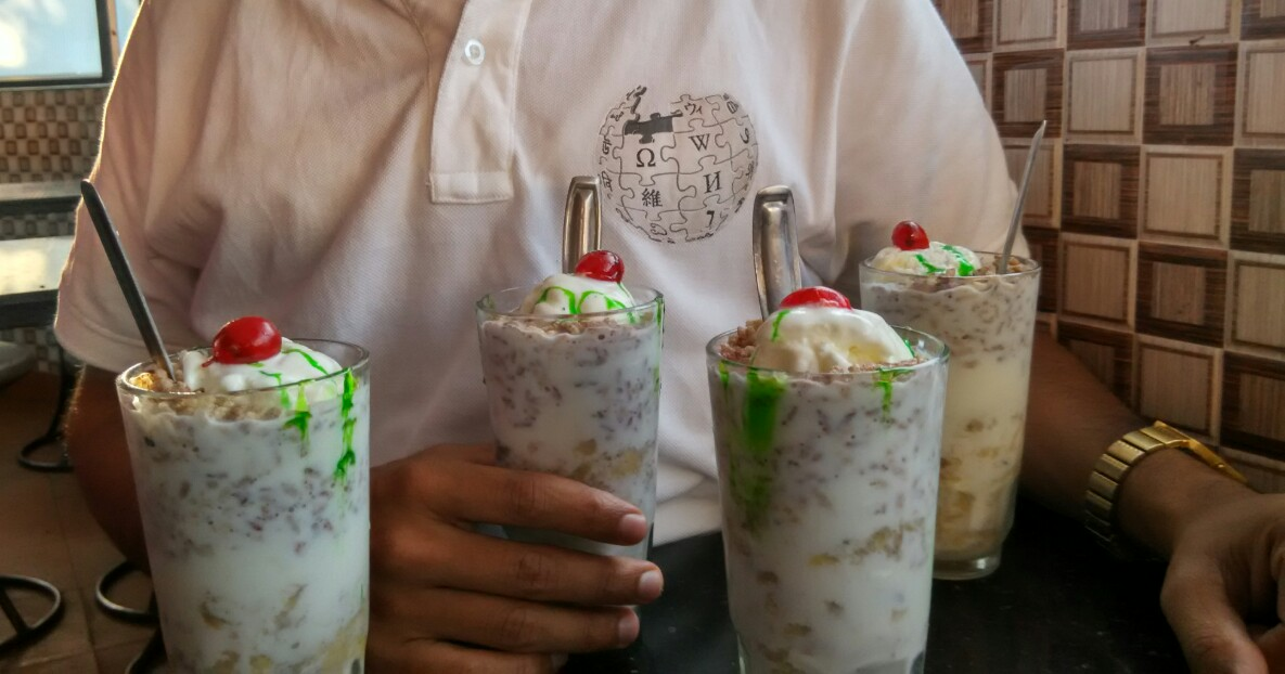 milk shake with aval made by kerala